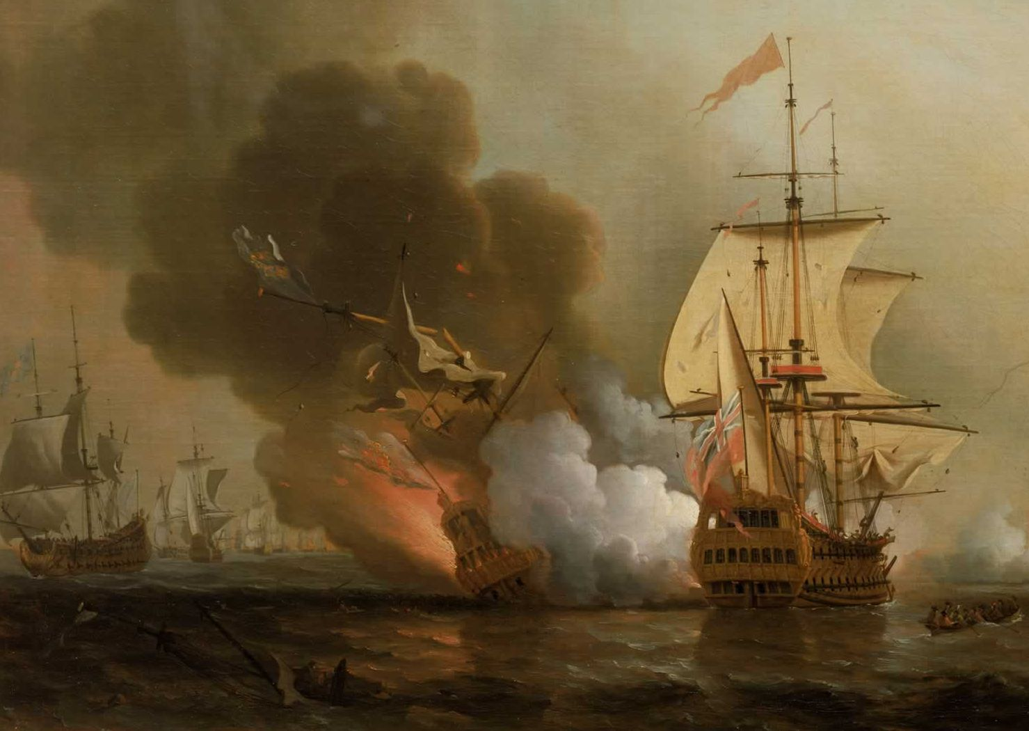 Action off Cartagena, May 28, 1708 Naval Combat off Cartagena, May 28, 1708. A British squadron attack the fleet of Spanish gold. A Spanish ship is captured, another forced to fail, and the San Jose carrying the bulk of the Spanish treasure is destroyed by the explosion of the "Santabárbara".